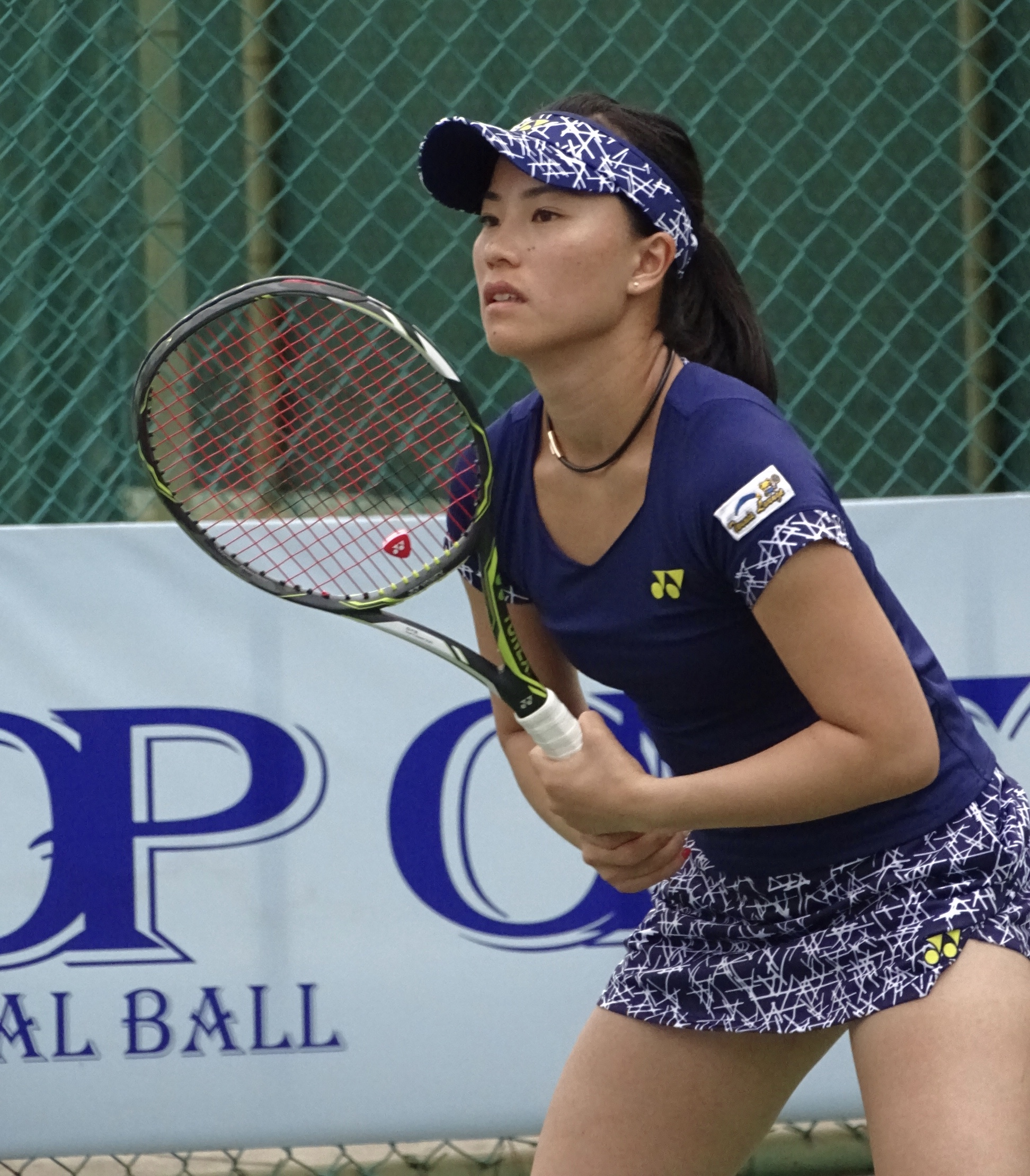 Miyabi Inoue at the ITF Women's Circuit in Nonthaburi 2017